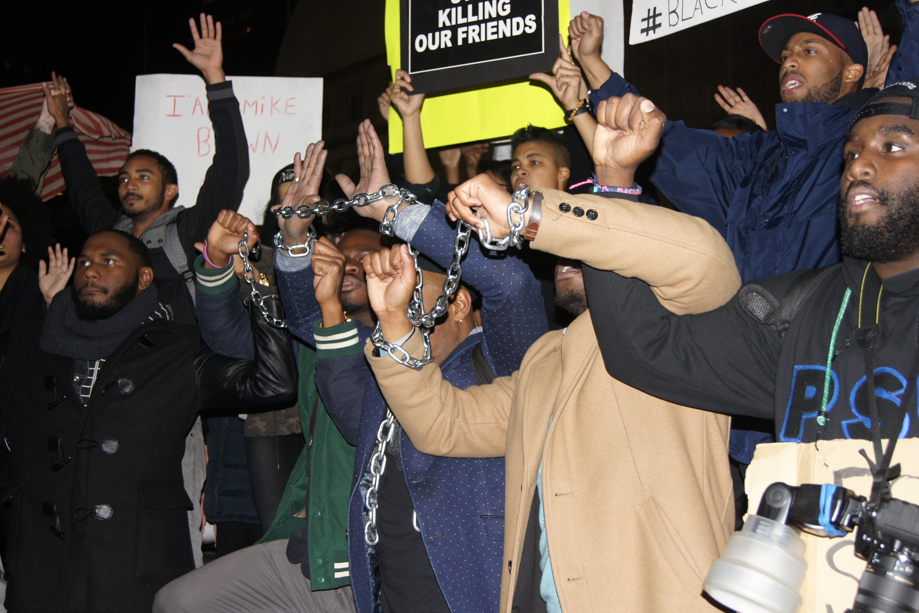 This image is from the protests surrounding the Shooting of Michael Brown and other related events. It was taken in New York City.